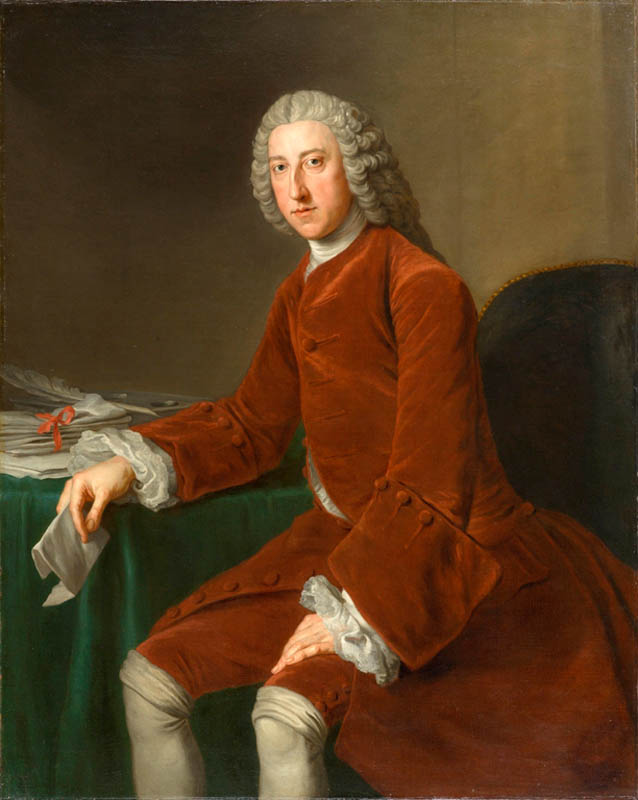 Portrait of the British statesman William Pitt, 1st Earl of Chatham (1708–1778), at three-quarter length, grey wig falling behind shoulders; rich brown velvet suit, white cravat, shirt and wrist ruffles; on the table an inkstand, pen and papers, a letter in his right hand; brown interior background; lit from left.